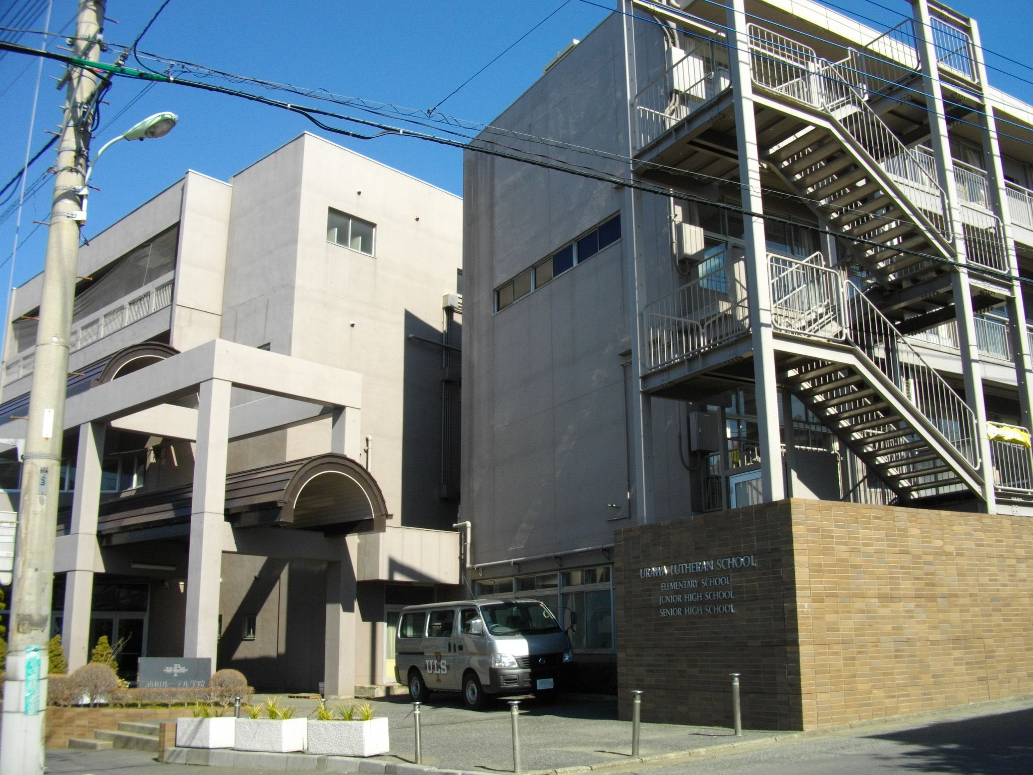 Urawa Lutheran School